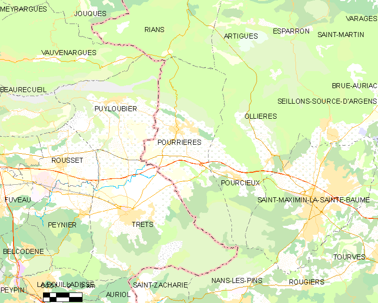 Map of French municipality Pourrières